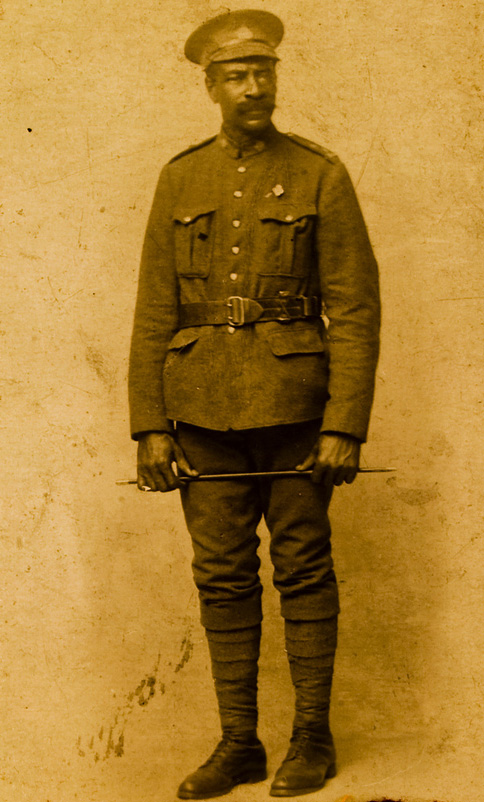 Jeremiah Jones during World War I. Jeremiah "Jerry" Alvin Jones (March 30, 1858 - November 23, 1950) was a Black Canadian soldier who served in World War I.